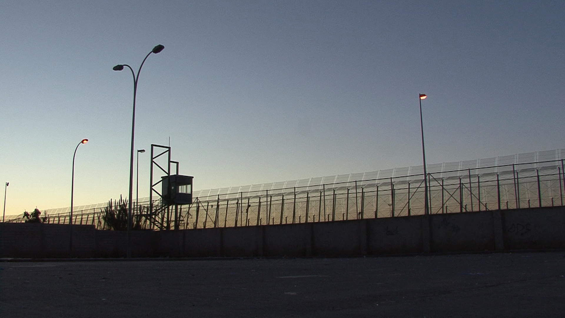 Melilla border fence CIEN METROS MÁS ALLÁ •Documental 2008 •Dir. Juan Luis de No •Exec. Prod. Stéphane M. Grueso •elegant mob films / Odisea / TVE •1 x 66' / 56' / color / stereo •HD - HDCAM Alrededores de Melilla, una pequeña porción de Europa dentro del continente africano, frontera terrestre entre Europa y África. Miles de personas sobreviven del contrabando y esperan una oportunidad para mejorar su existencia. Mientras tanto la economía global avanza inexorablemente sin tener en cuenta sus pequeñas vidas. Más info: ENGLISH --------------------------------------------------- ONE HUNDRED METERS AWAY •Documentary 2008 •Dir. Juan Luis de No •Exec. Prod. Stéphane M. Grueso •elegant mob films / Odisea / TVE •1 x 66' / 56' / color / stereo •HD - HDCAM The untold story of one of the world's hot spots where thousands of workers beast of burden in a struggle to survive. One hundred meters away takes place in Melilla, the terrestrial border between Africa and Europe; a portion of Europe wedged in the African continent, where mobs gather to fight for the scraps of a booming business: smuggling, while waiting for a chance to better their lives. Meanwhile, the Global economy moves on inextricably oblivious of its influence over simple human beings.